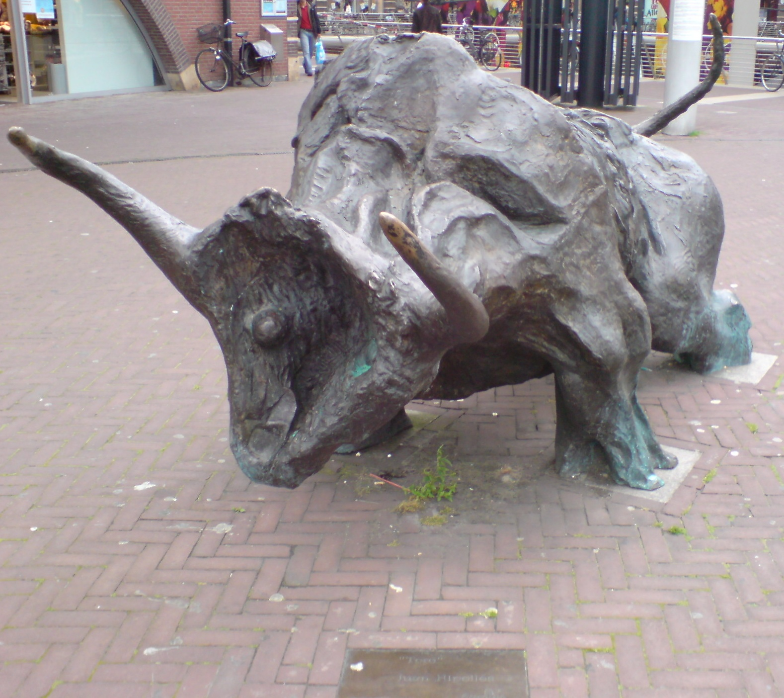 Te bullock (Toro) in 's-Hertogenbosch, the Netherlands. Made by Juan Ripollés in 2001. Placed in 2002 at the Coronade (Burgemeester Loeffplein).